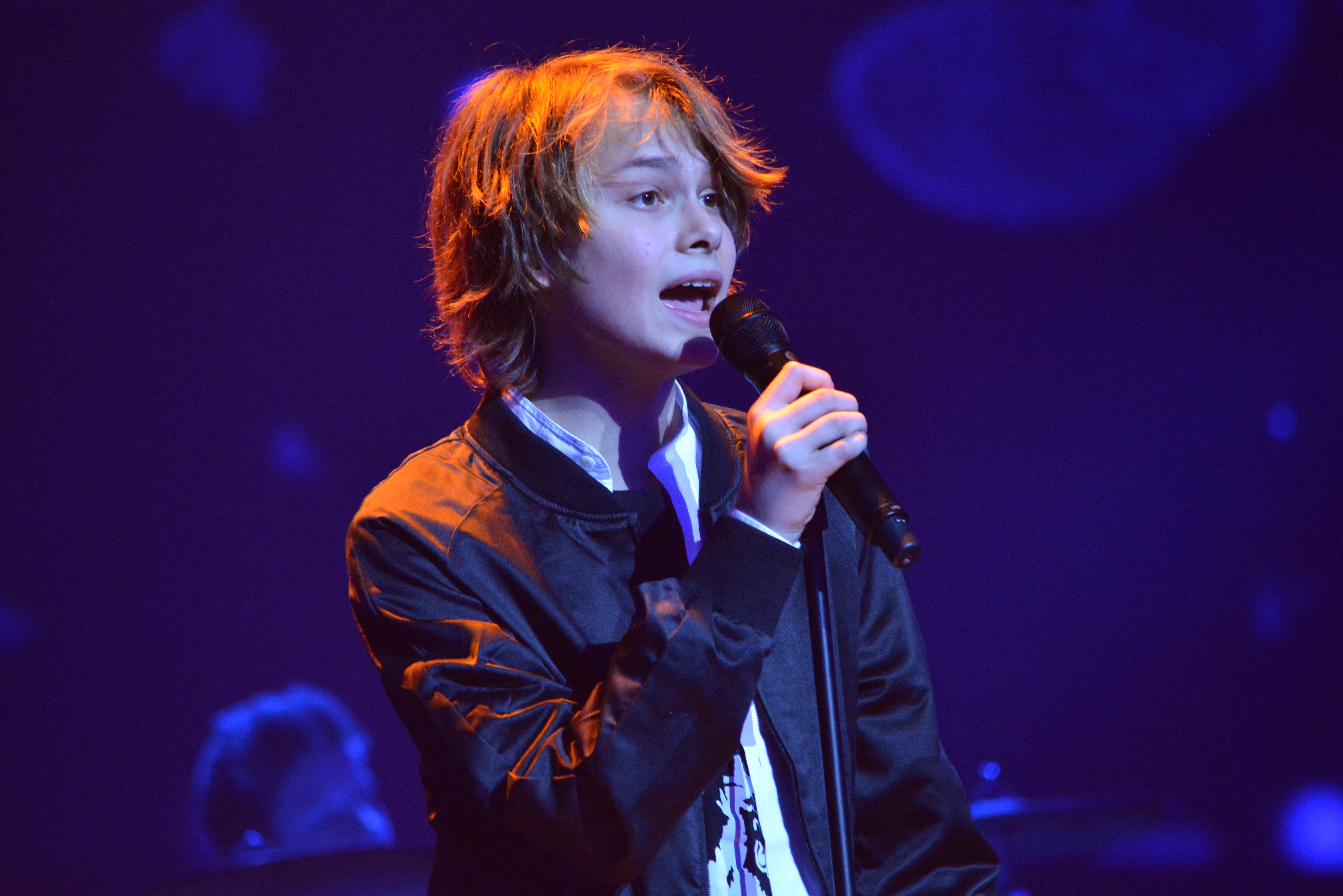 JESC 2013 (Sweden) Eliias at rehearsal